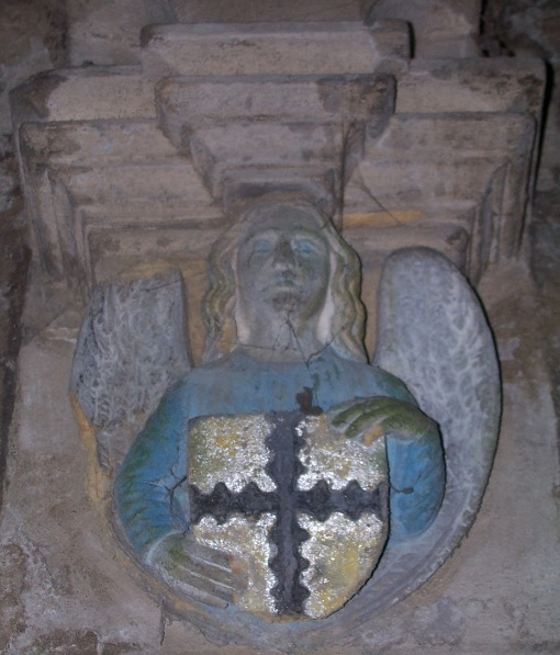 Rosslyn Chapel, Midlothian, Scotland - angel with St Clair's coat of arms